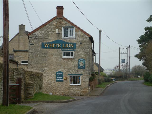 The White Lion, Fewcott, Oxfordshire